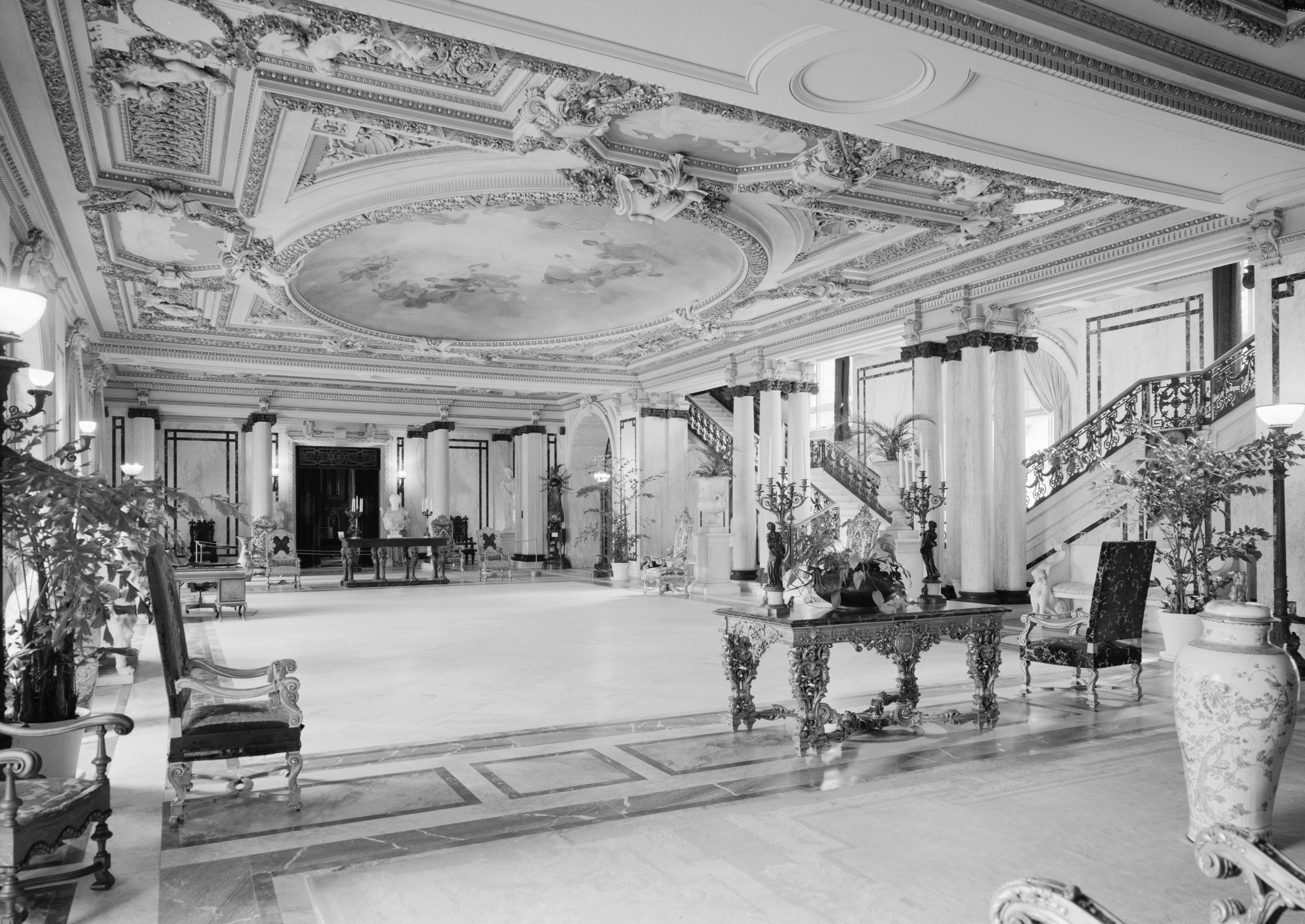 MAIN HALL, VIEW FROM NORTH — Whitehall, former mansion of Henry Flagler, in Palm Beach, Florida. Present day Flagler Museum. 1972 image from the HABS—Historic American Buildings Survey in Florida.